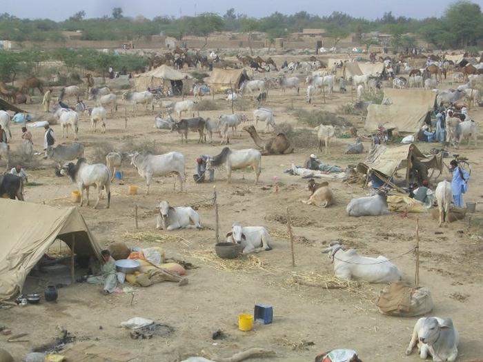 Sibi Mela First held in January 1885 in the City of Sibi Province Balochsitan, Pakistan.